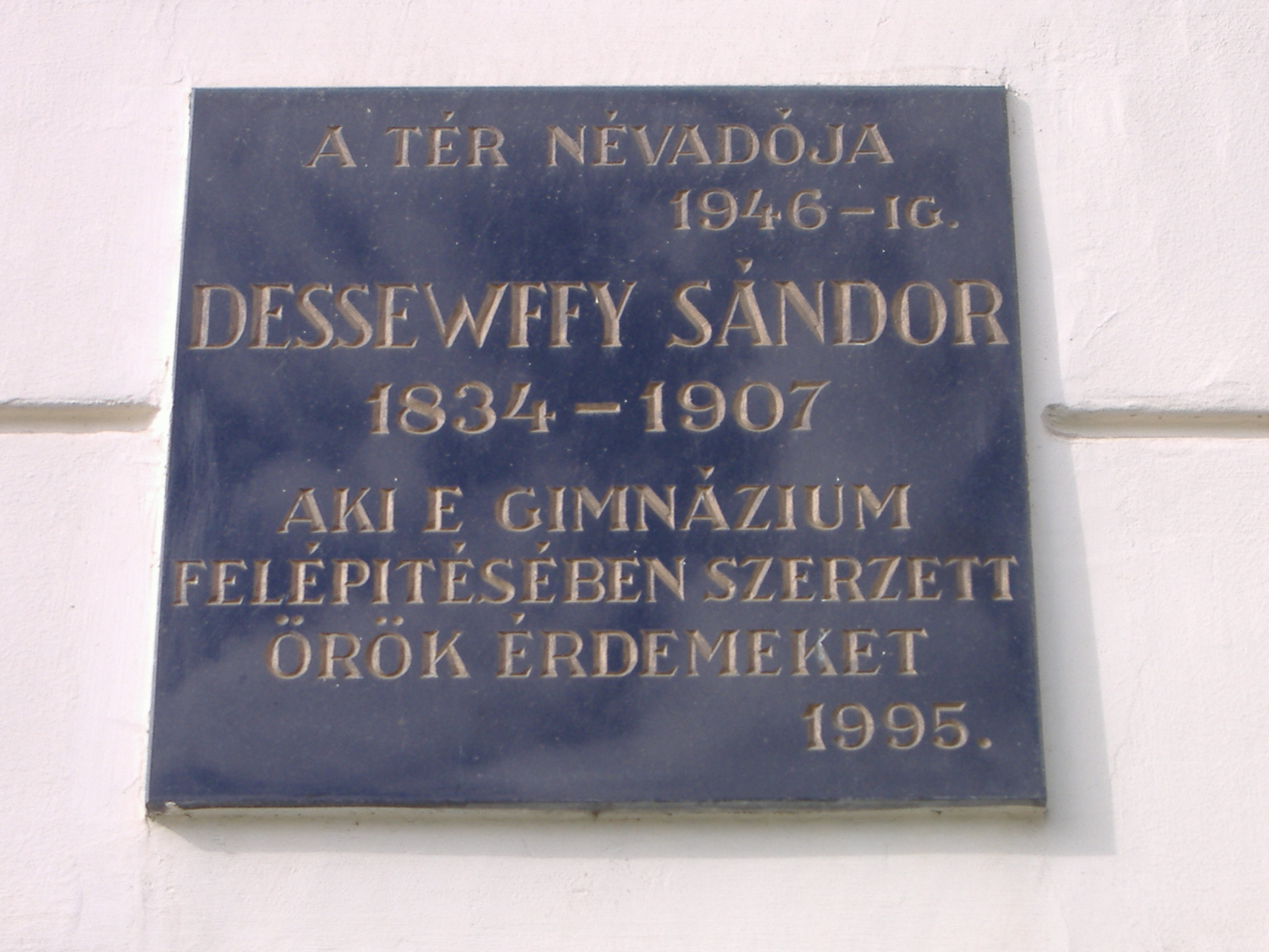 Memorial tablet of Sándor Dessewffy, bishop in Makó, Hungary.